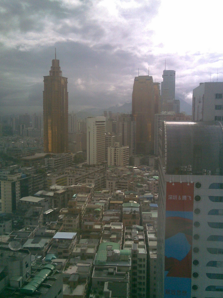 View over Luohu district of Shenzhen from 25th floor of Panglin Hotel. Golden Business Center can be seen on the left. 2008-07-11